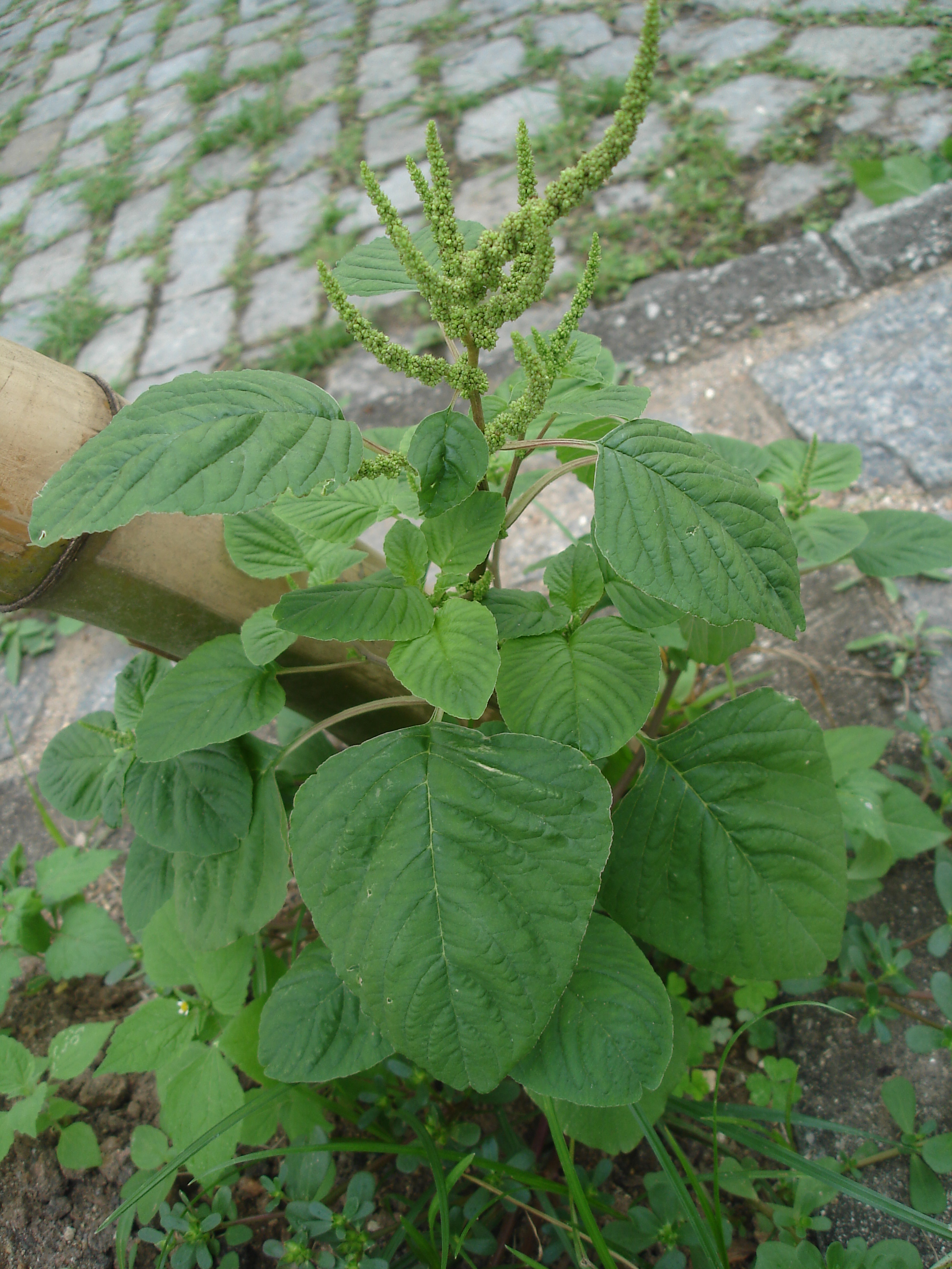 Leaves, branch and fruit of Amaranthus viridis (